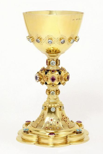 Chalice designed by William Butterfield, 1856-1857 (hallmarked) V&A Museum no. CIRC.521-1962 Techniques - Silver with gilding, set with semi-precious stones Artist/designer - Butterfield, William, born 07/09/1814 - died 23/02/1900 (designer) Keith, John, active about 1824 Place - London, England Dimensions - Height 24.2 cm Diameter 15.2 cm Object Type - A chalice is a cup used to contain wine at the most important act of worship of the Christian Church, the Holy Communion or Mass. This richly decorated chalice is in the Gothic style promoted by the architect A.W.N. Pugin and the Cambridge Camden Society ( later the Ecclesiological Society ). The architect, William Butterfield who designed the chalice, was often quite original in his interpretation of the Gothic style, as the elaborate patterning of the coloured stones shows. People - William Butterfield (1814-1900), the designer of this chalice, trained as an architect and was appointed to supervise the Cambridge Camden Society's new scheme for the manufacture of church plate and furnishings in 1843. This chalice was made under the scheme by the official silversmith to the society, John Keith & Son. Henry Woodyer, the architect of the convent for which the chalice was commissioned, was a pupil of William Butterfield. Places - The chalice was made for use at the House of Mercy convent ( now called the Convent of St John the Baptist ) at Clewer in Berkshire. It was presented by Sister Elisabeth Morton, in the year after she took her vows as a nun, to be used in the new chapel that she had funded. The designer and architectural historian, Nicholas Pevsner, described the architectural style of the convent as 'joyless Gothic'.